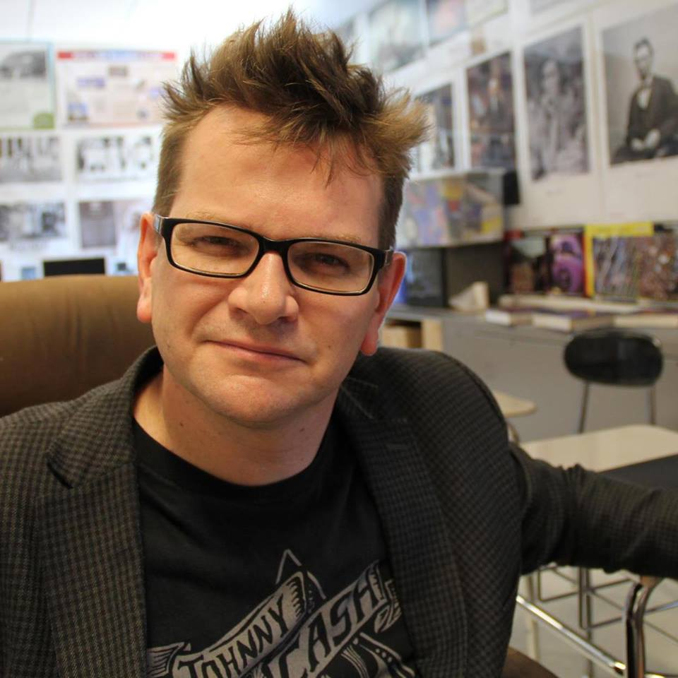 Keith Hughes (historian) in 2015.